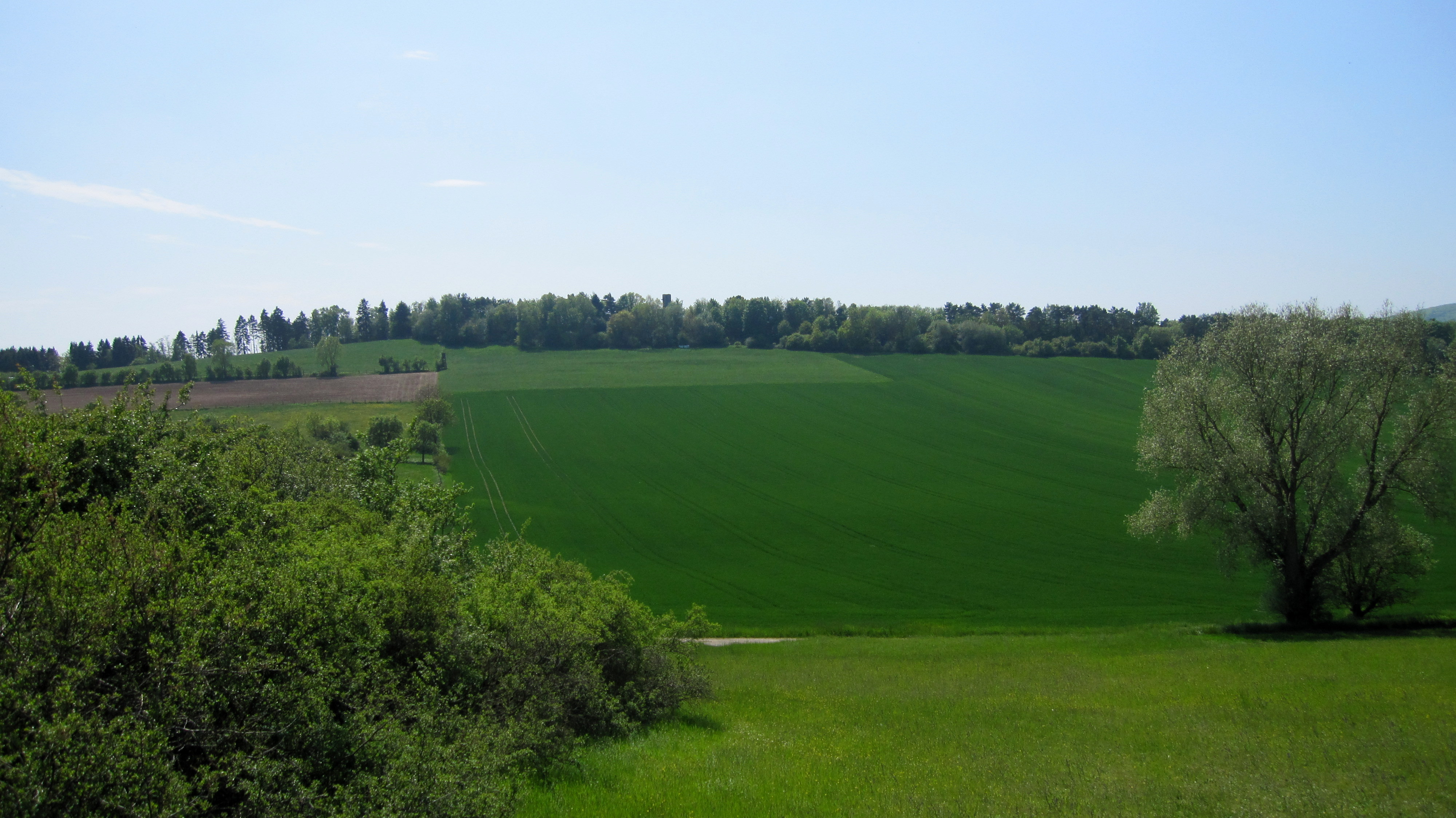 View to the Heinberg with Heinturm (Heintower) from North-West. Photograph regarding the 250th anniversary of the Battle of Warburg in 2010. The battle was fought on 31 July 1760 during the Seven Years' War at the Heinberg near todays constituent community Warburg-Ossendorf.